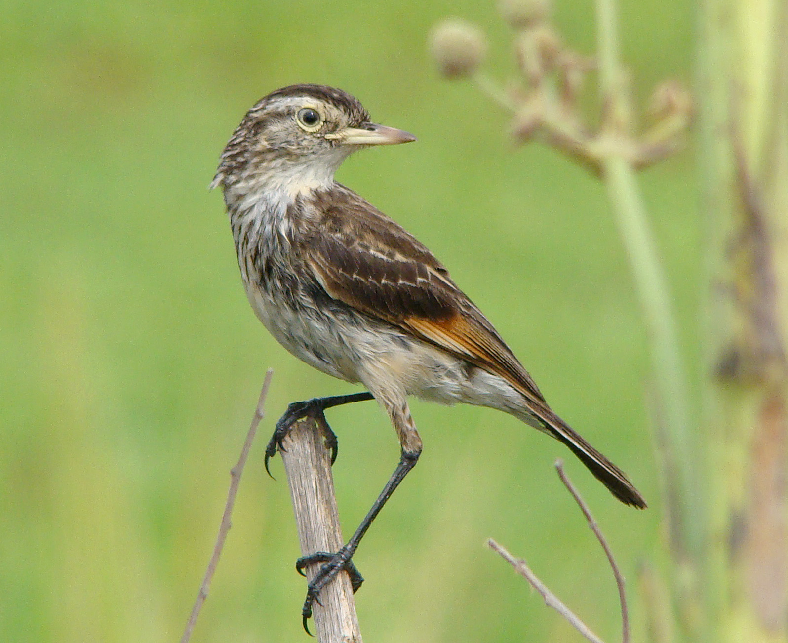 Hymenops perspicillatus perspicillatus female photographed in Rio Grande, Rio Grande do Sul, Brazil, in December 2009.